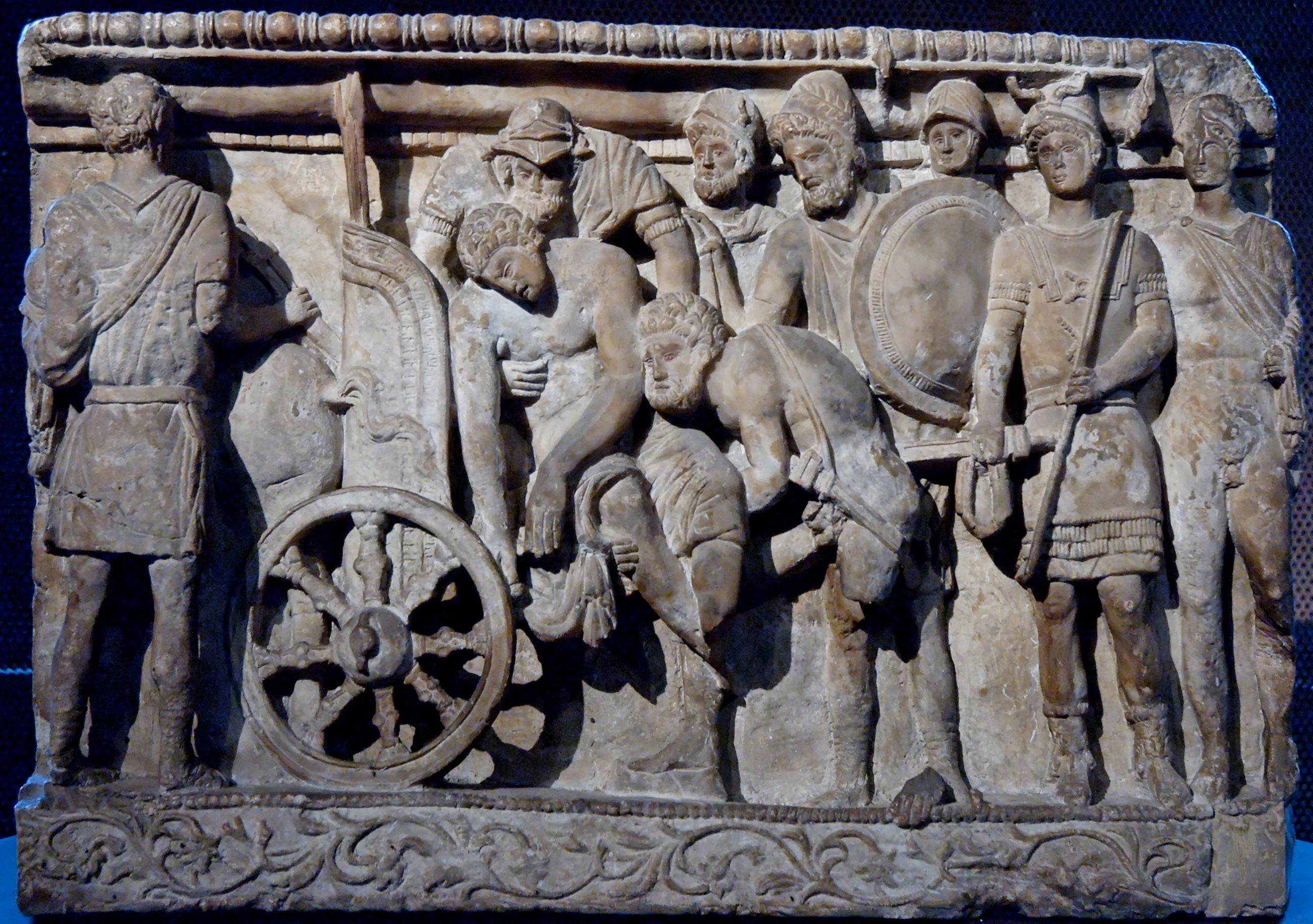 Menelaus and Meriones lifting Patroclus' corpse on a cart while Odysseus (on the right, wearing the pilos hat and a shield) looks on. Alabaster urn, Etruscan artwork, 2nd century BC. From Volterra. Stored in the Museo Nazionale Archeologico Nazionale in Florence.